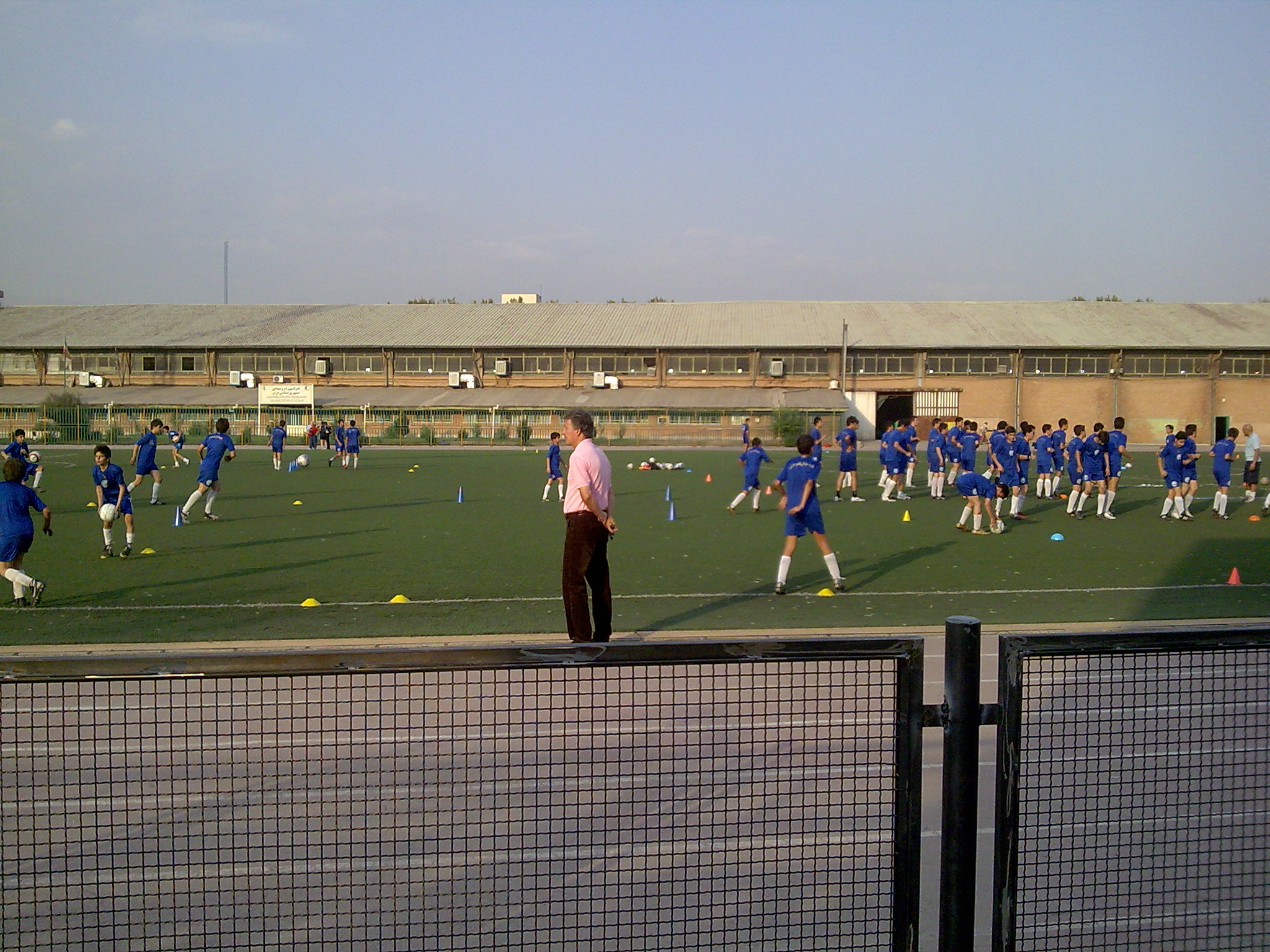 Naser Hejazi, former Iranian football player and current manager watching his academy's players training in Keshvari stadium, Tehran